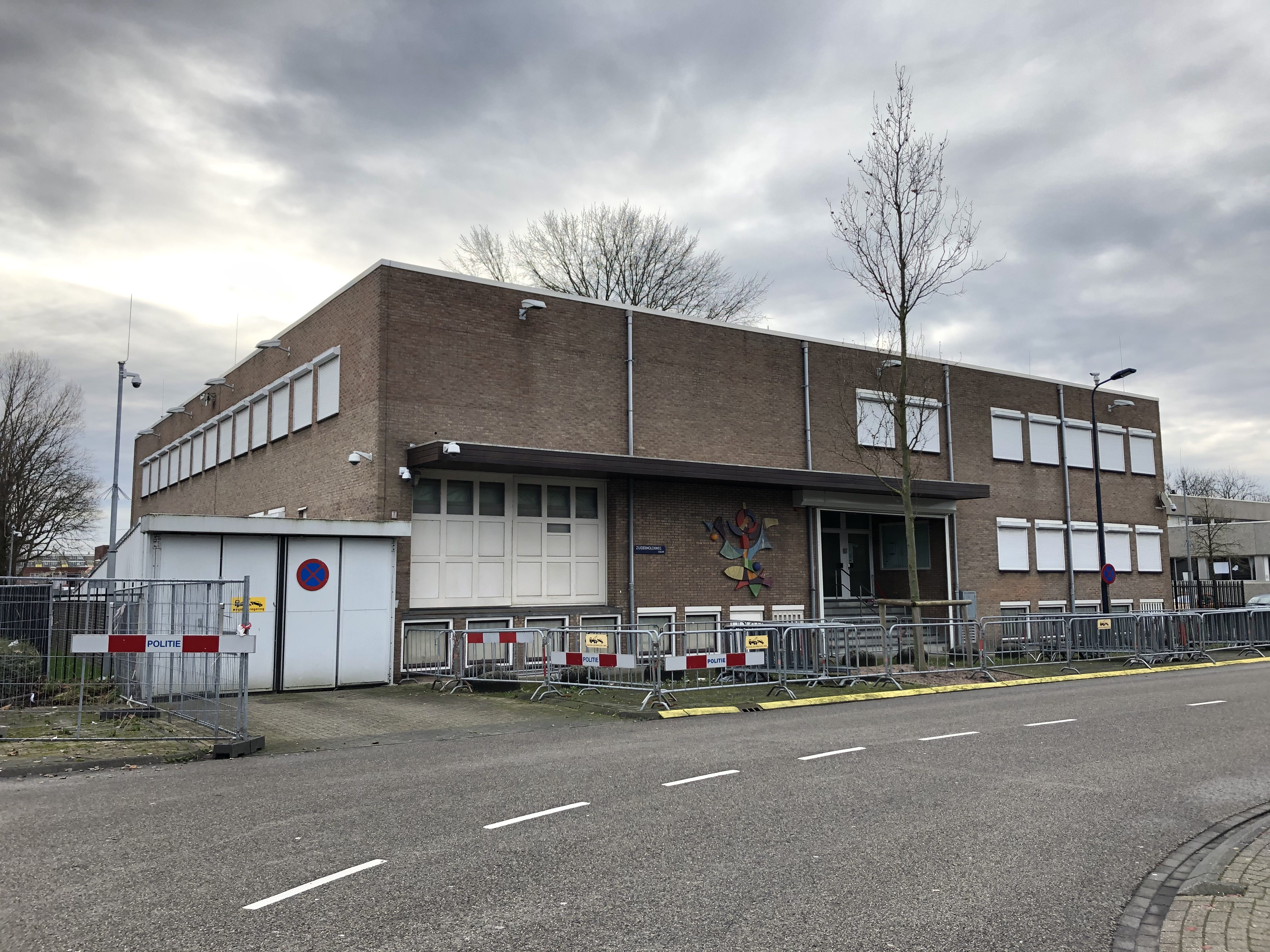 "De Bunker", extra secured court in Amsterdam, the Netherlands